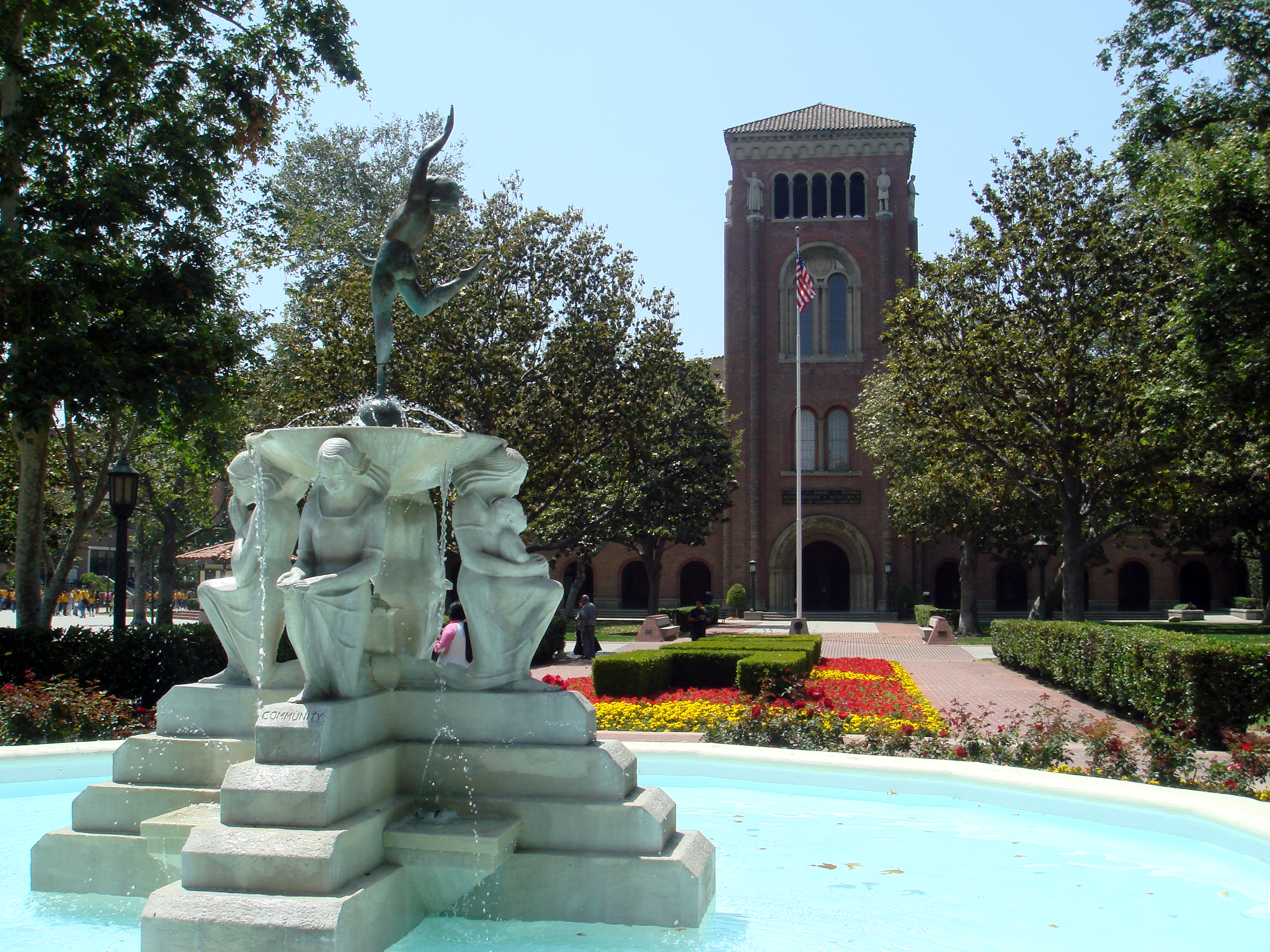 Fountain and the Bovard Administration Building at the University of Southern California in Los Angeles, California